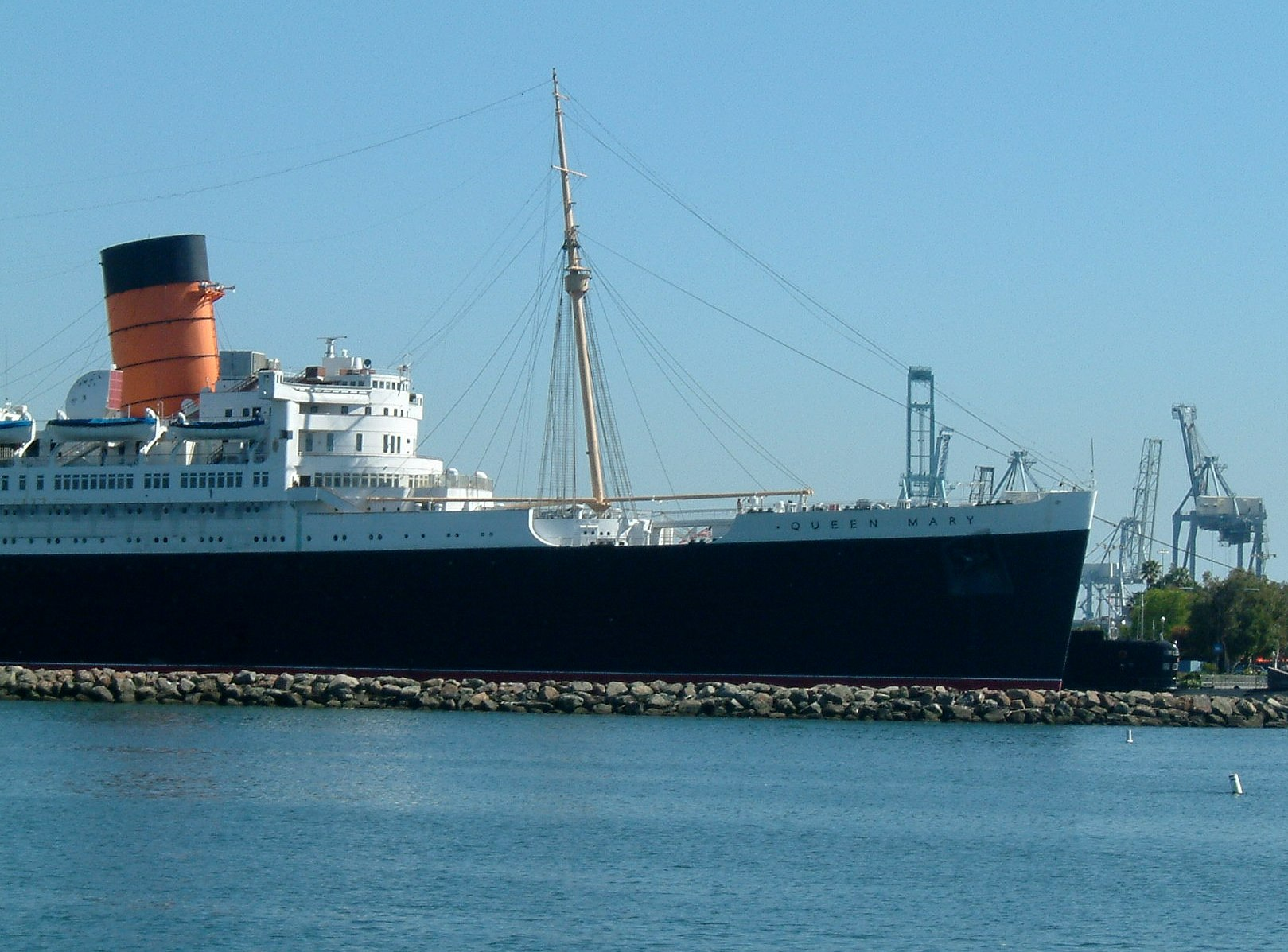 RMS Queen Mary, Long Beach, United-States.